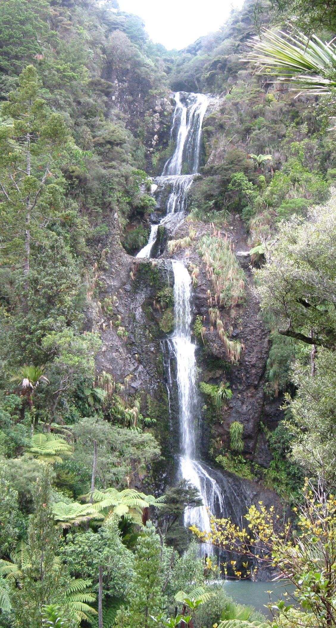 Picture of Kitekite falls showing the full distance the water moves